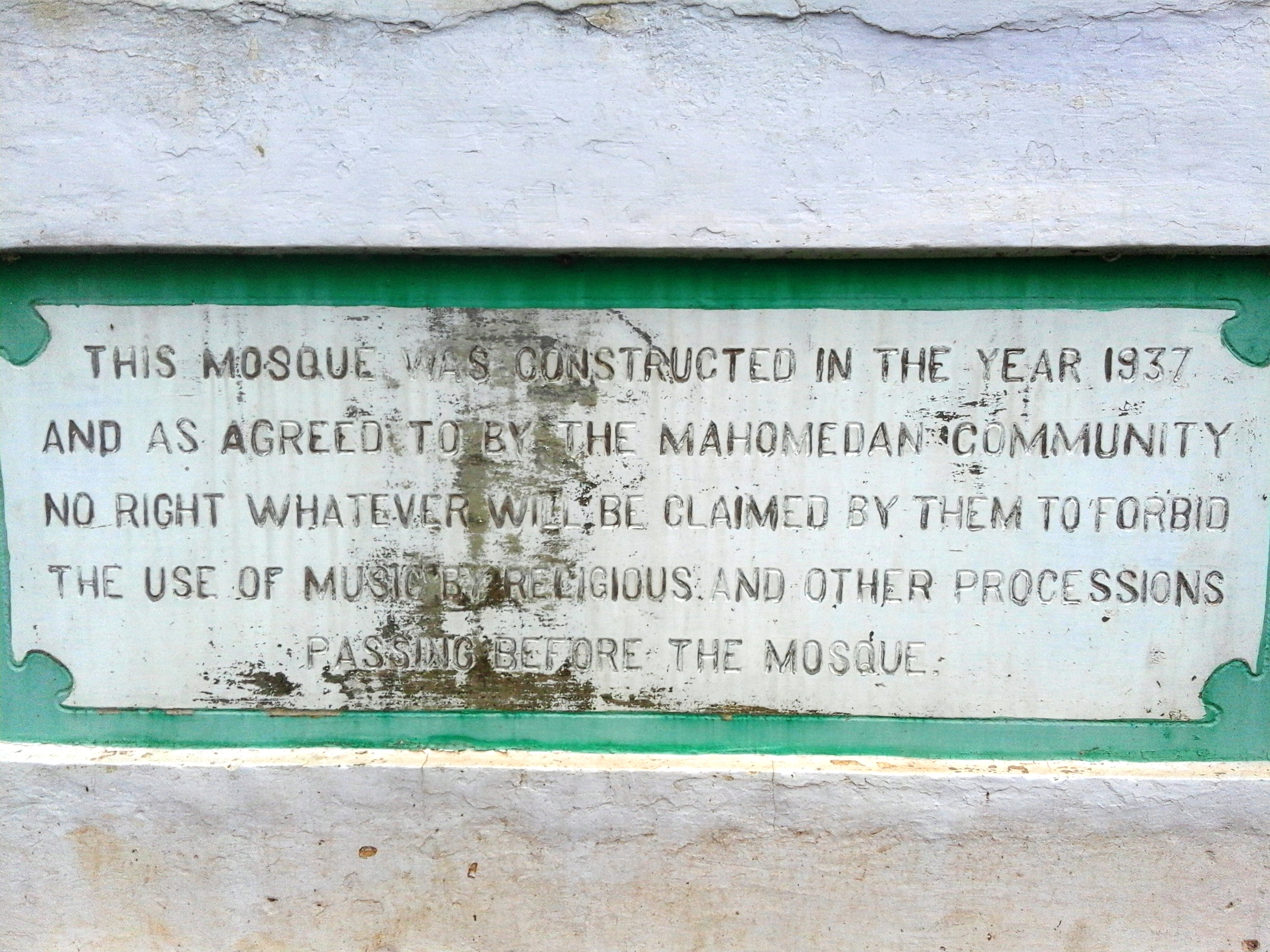 Stone inscription on the outer wall of Maddur Mosque, Mandya district, Karnataka state, India.